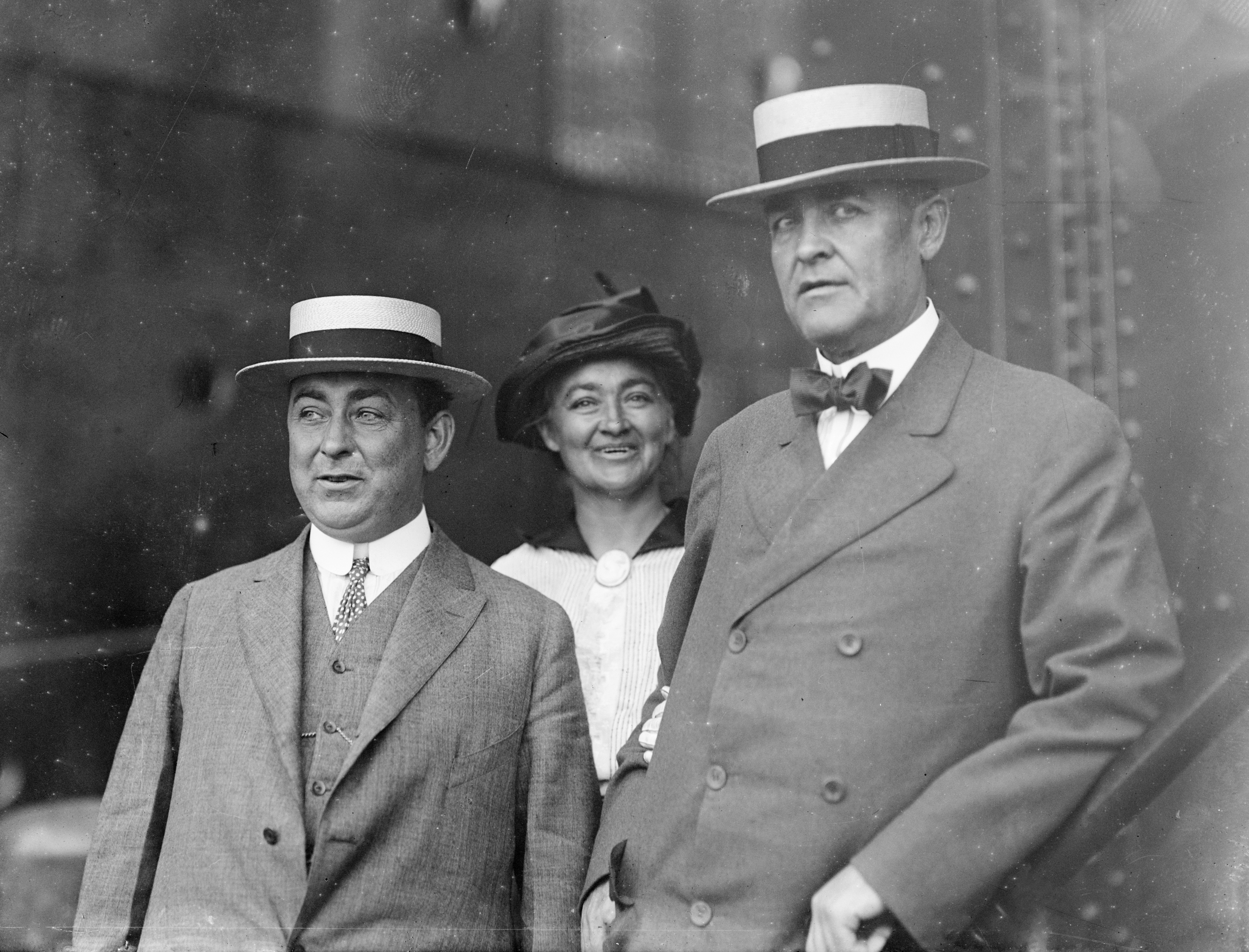 Bain News Service, publisher. Larry Mulligan - Hicks, Tim Sullivan circa 1913 [no date recorded on caption card] 1 negative : glass ; 5 x 7 in. or smaller. Notes: Title from unverified data provided by the Bain News Service on the negatives or caption cards. Forms part of: George Grantham Bain Collection (Library of Congress). Format: Glass negatives. Repository: Library of Congress, Prints and Photographs Division, Washington, D.C. 20540 USA, General information about the Bain Collection is available at Persistent URL: Call Number: LC-B2- 2768-7